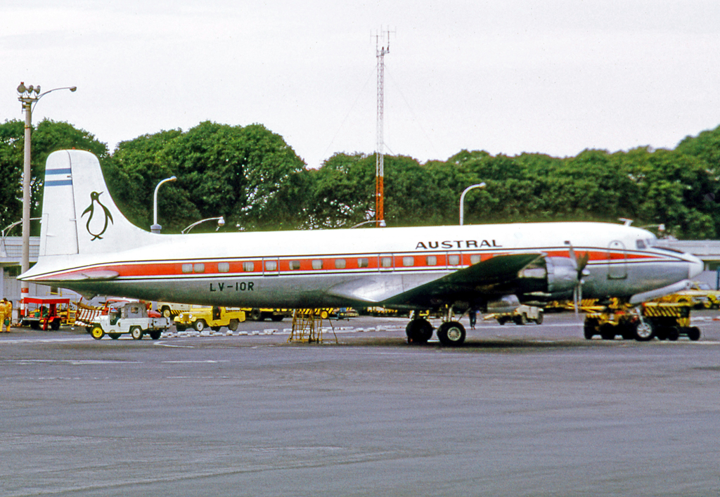 Douglas DC-6 LV-IOR of Austral Lineas at Buenos Aires Aeroparque in 1972